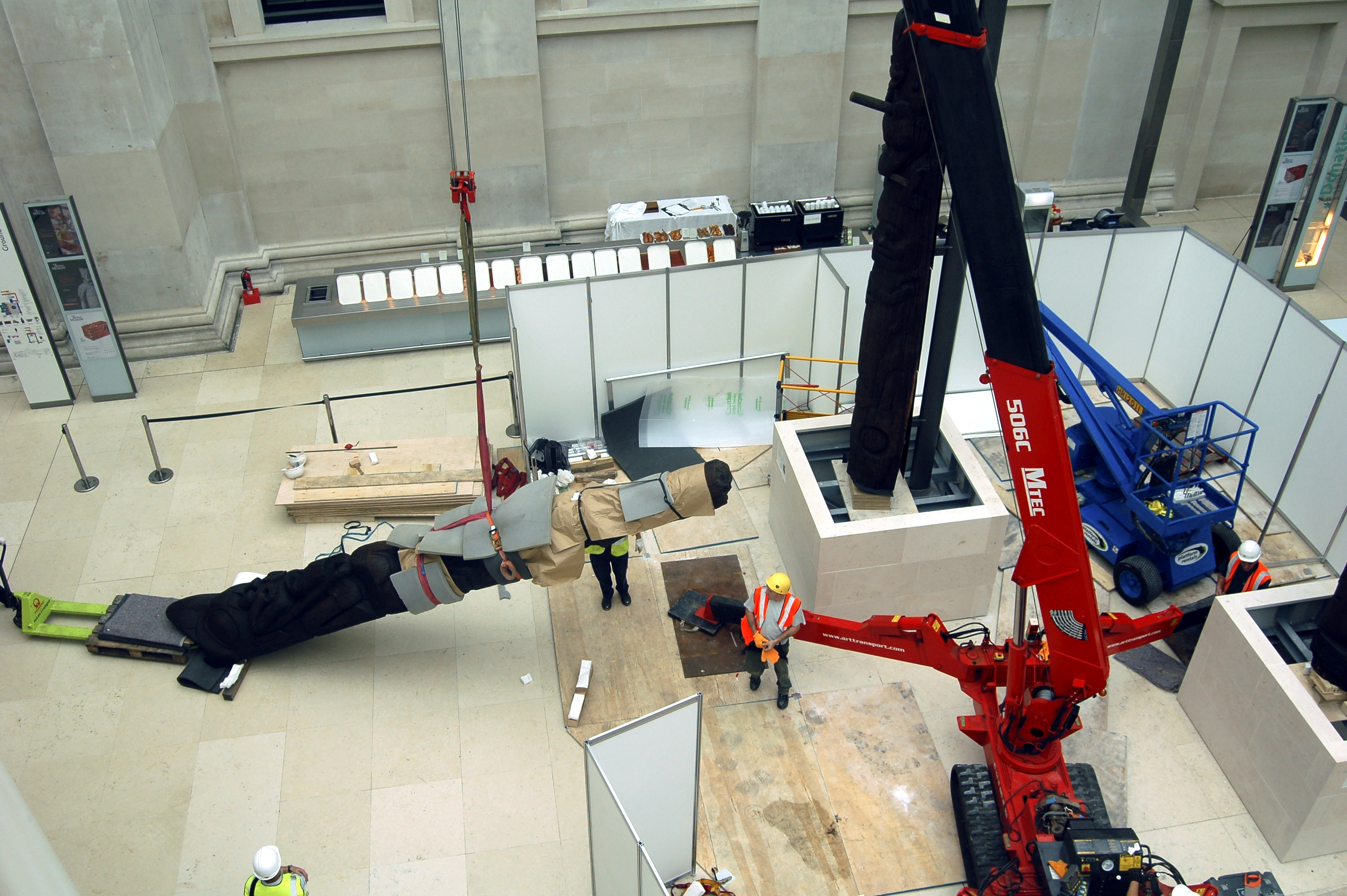 Lifting underway This was added from the site called under the name portableantiquities. See source for details.